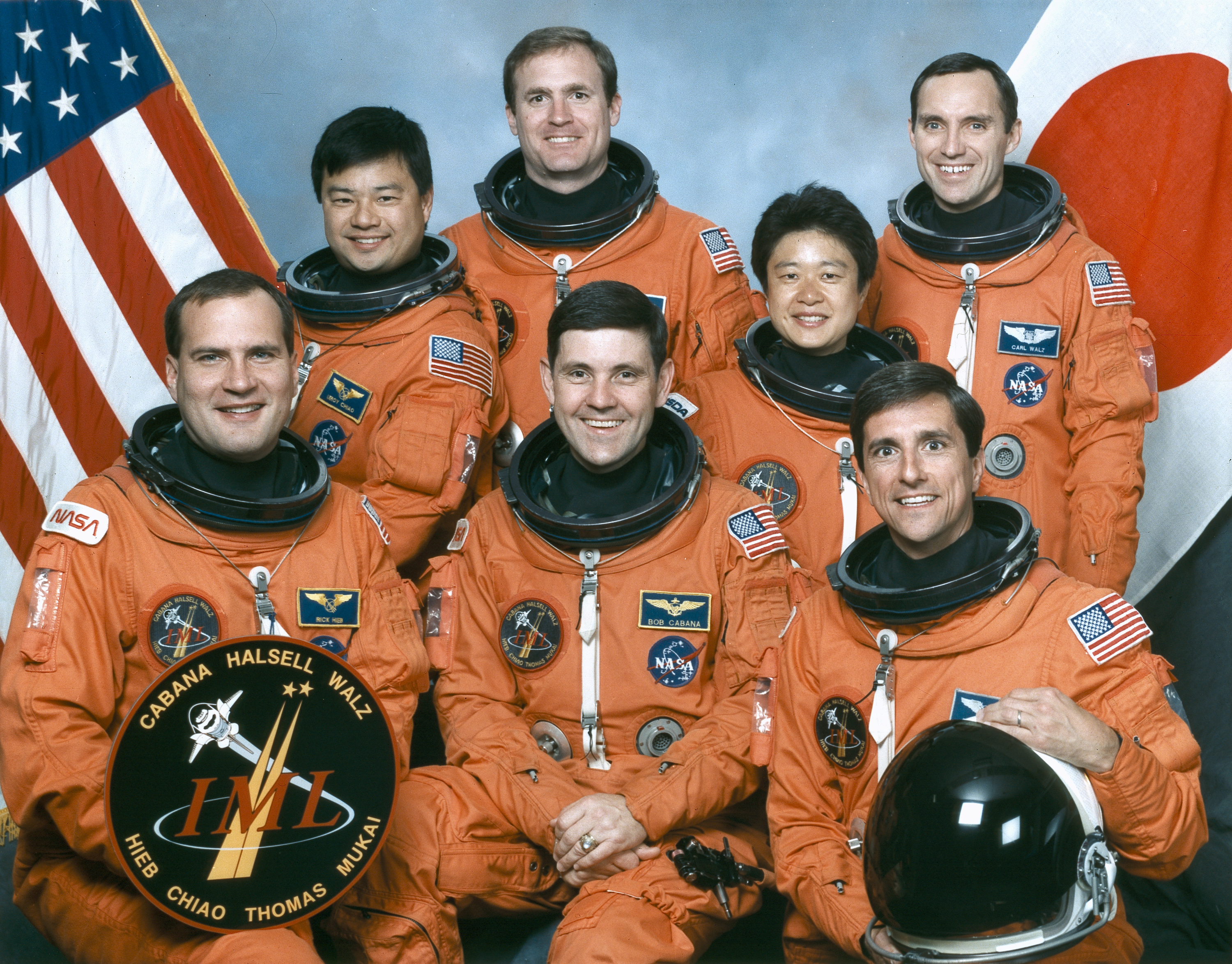 The crew assigned to the STS-65 mission included (seated left to right) Richard J. (Rick) Hieb, payload commander; Robert D. (Bob) Cabana, commander; and Donald A. Thomas, mission specialist. Standing, from left to right, are Leroy Chiao, mission specialist; James D. Halsell, pilot; Chiaki Naito-Mukai, payload specialist; and Carl E. Walz, mission specialist. Launched aboard the Space Shuttle Columbia on July 8, 1994 at 12:43:00 pm (EDT), the STS-64 mission marked the second flight of the International Microgravity Laboratory (IML-2) and the first flight of a female Japanese crew member.